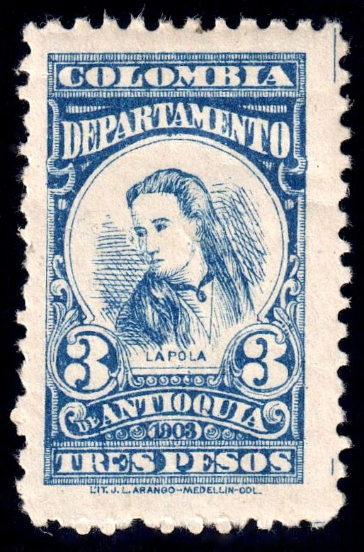 Colombian department of Antioquia 3 pesos blue, mint. Depicting Policarpa Salavarrieta also known as La Pola. Catalogue: Sc. 154